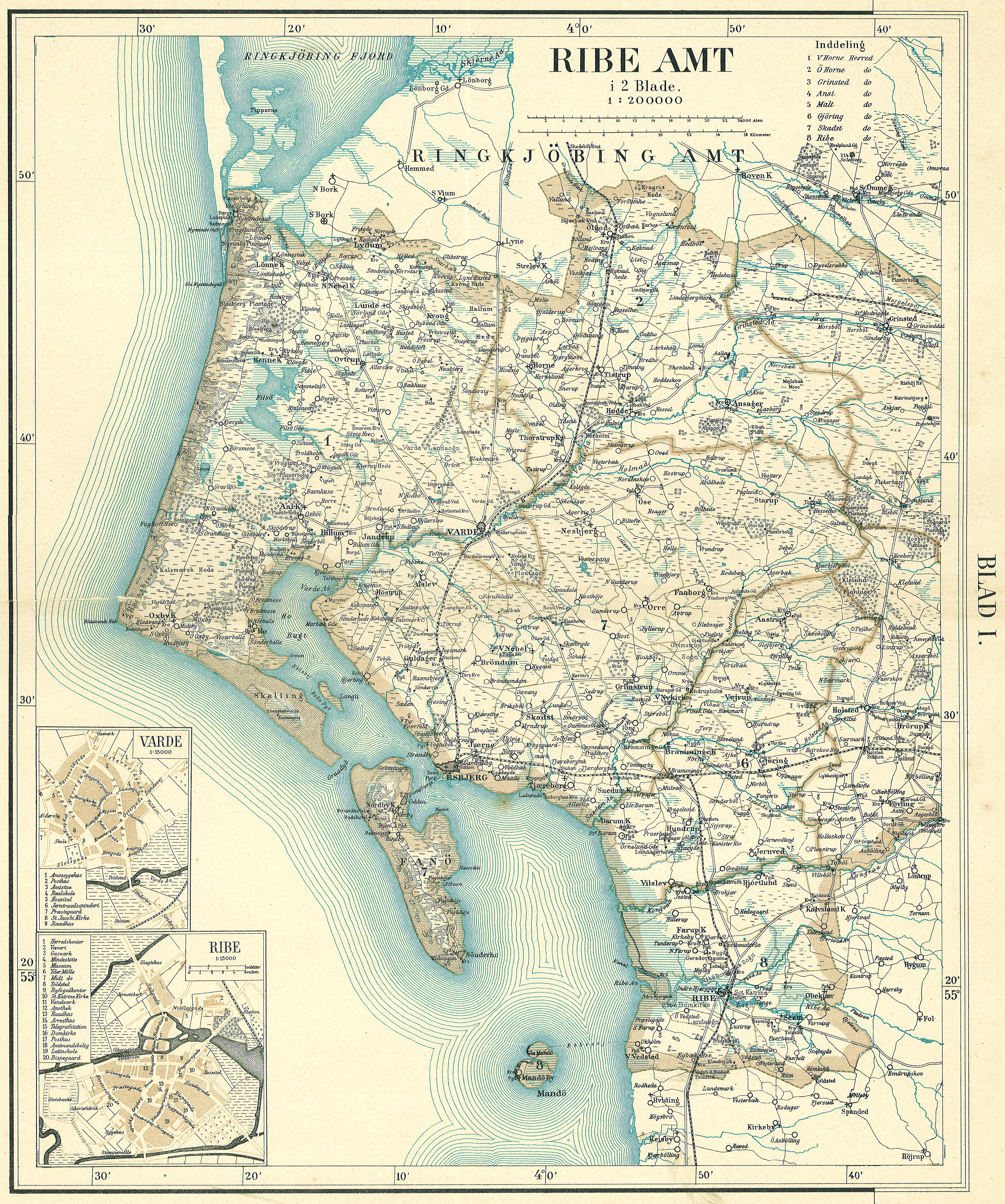 Map of the western part of Ribe County in Denmark